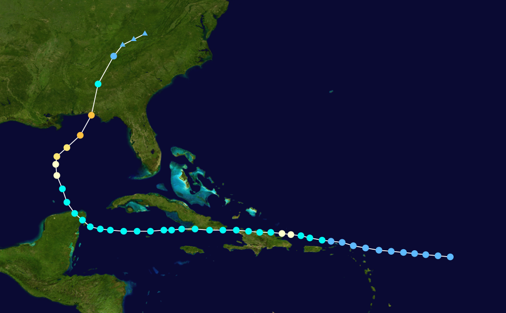 Hurricane Eloise (1975) track. Uses the color scheme from the Saffir-Simpson Hurricane Scale.